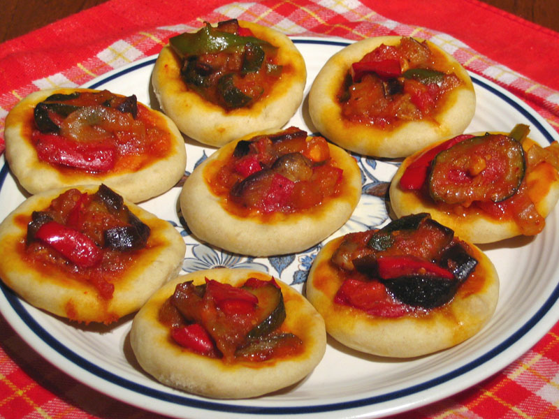 coques de mullador (catalan pizza with ratatouille).